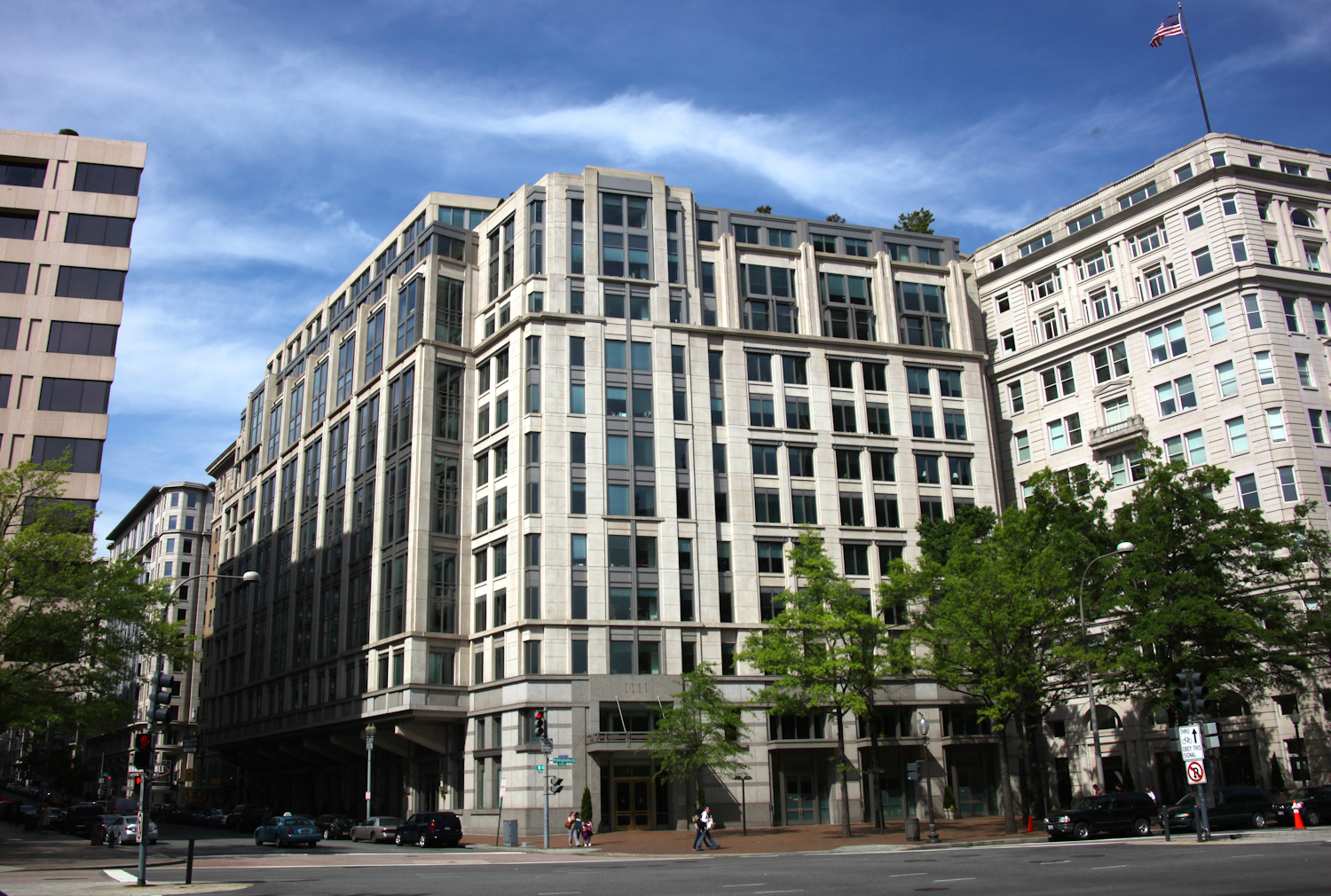 en:1111 Pennsylvania Avenue NW in Washington, D.C., in the United States in 2010, showing the Postmodern architectural facade created during its 2002 renovation.